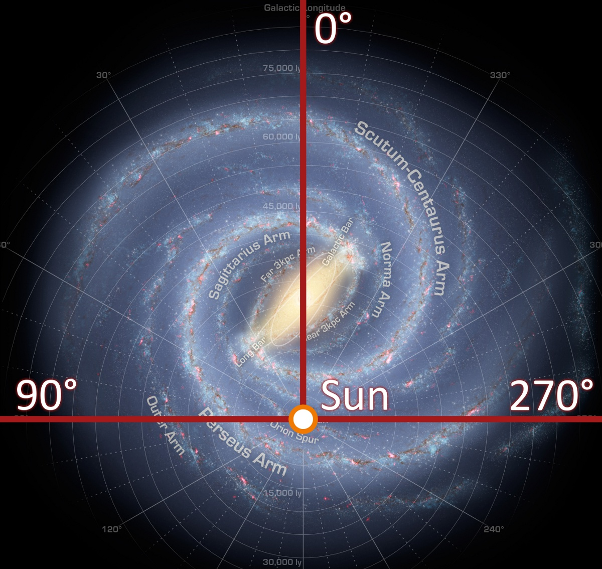 Grid added to File:236084main MilkyWay-full-annotated.jpg